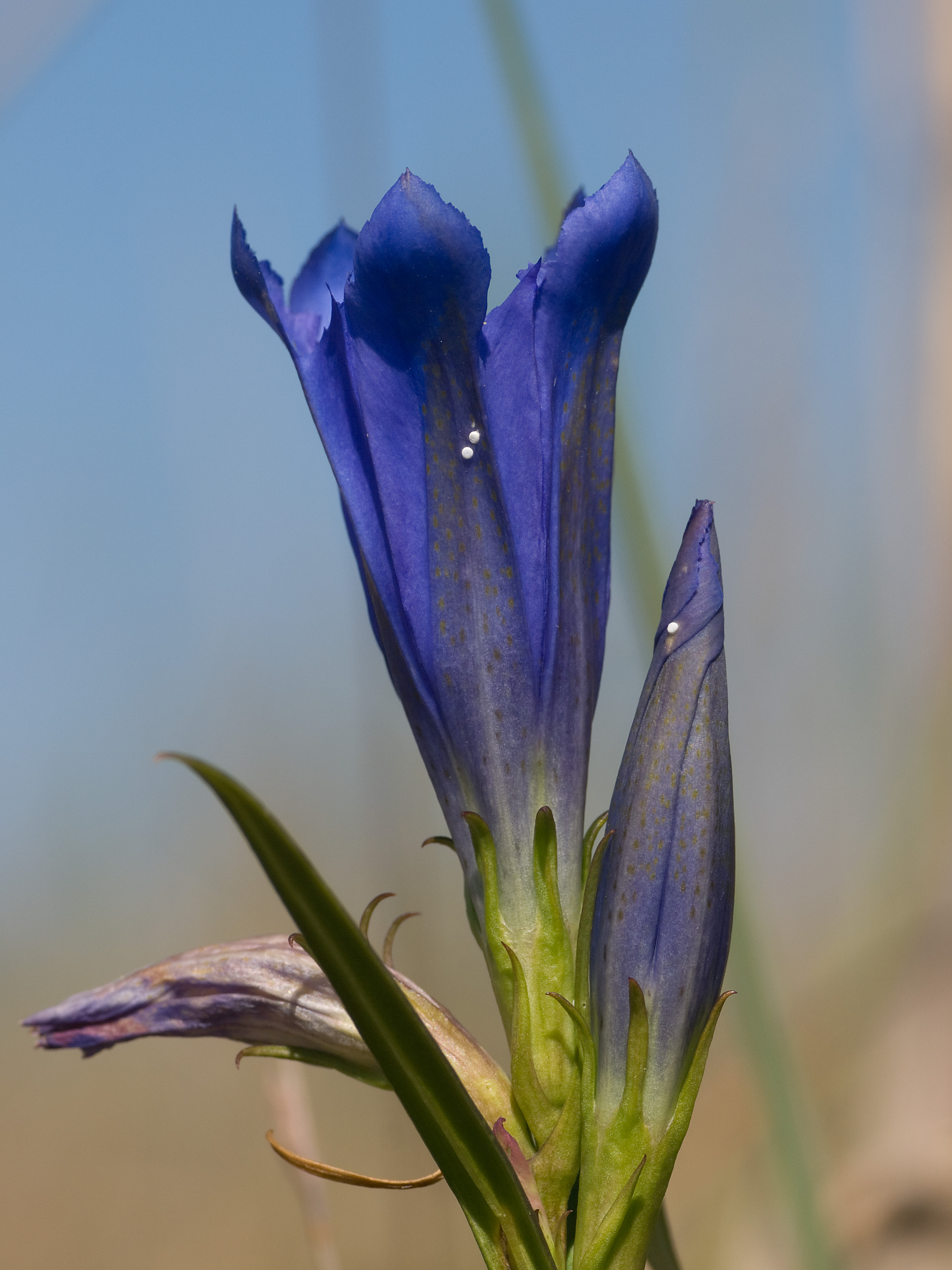 Eier vom Lungenenzian-Ameisenbläuling, Phengaris alcon, syn. Maculinea alcon an Lungenenzian, Gentiana pneumonanthe, aufgenommen am Kochelsee; Eggs from Alcon Blue, Phengaris alcon, syn. Maculinea alcon, on the Marsh Gentian, Gentiana pneumonanthe, picture taken at Kochelsee/Bavaria